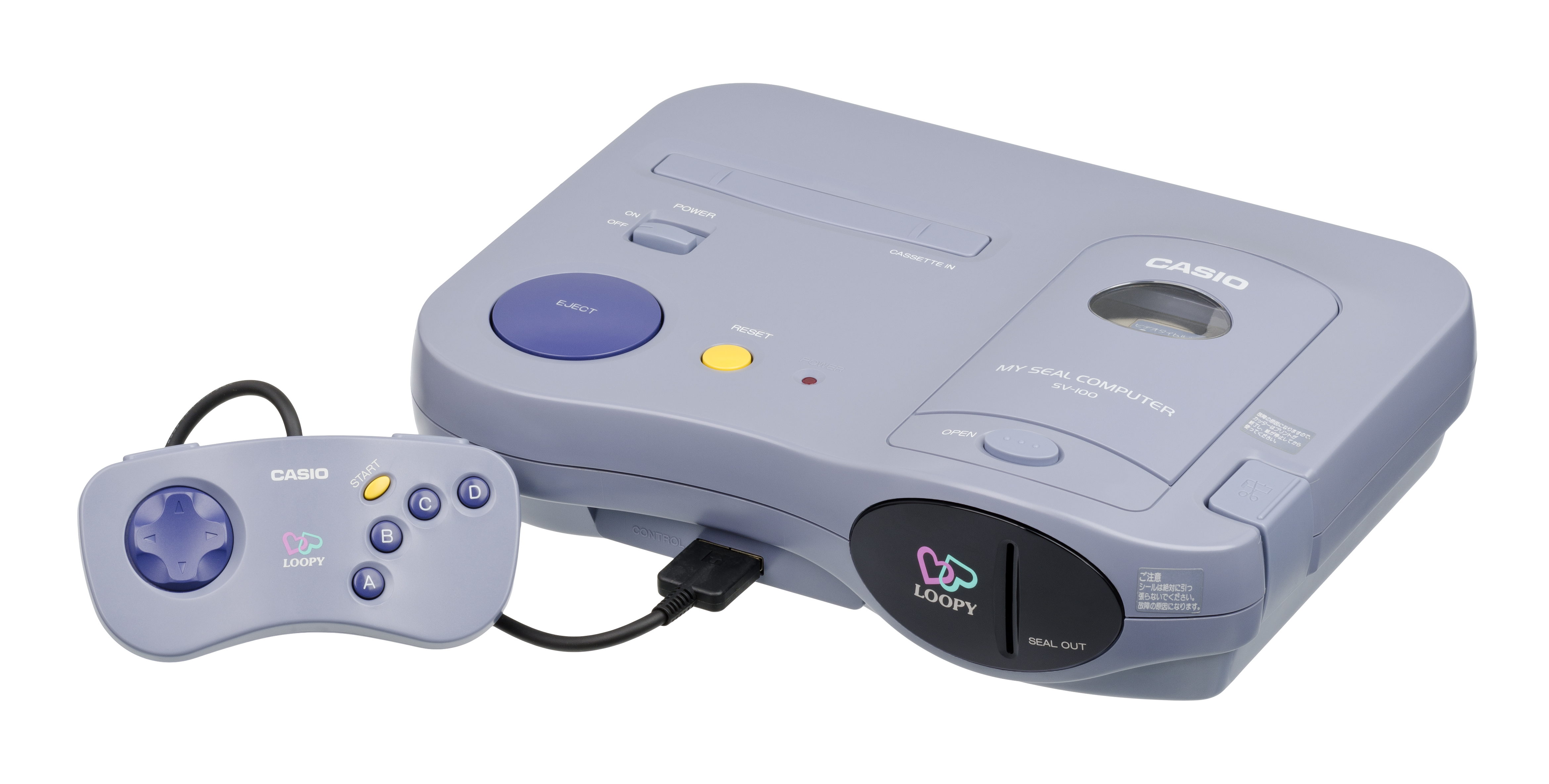 The Casio Loopy, a 1995 video game console only released in Japan. The Loopy is unique for its ability to print stickers, as well as its being marketed directly to girls.